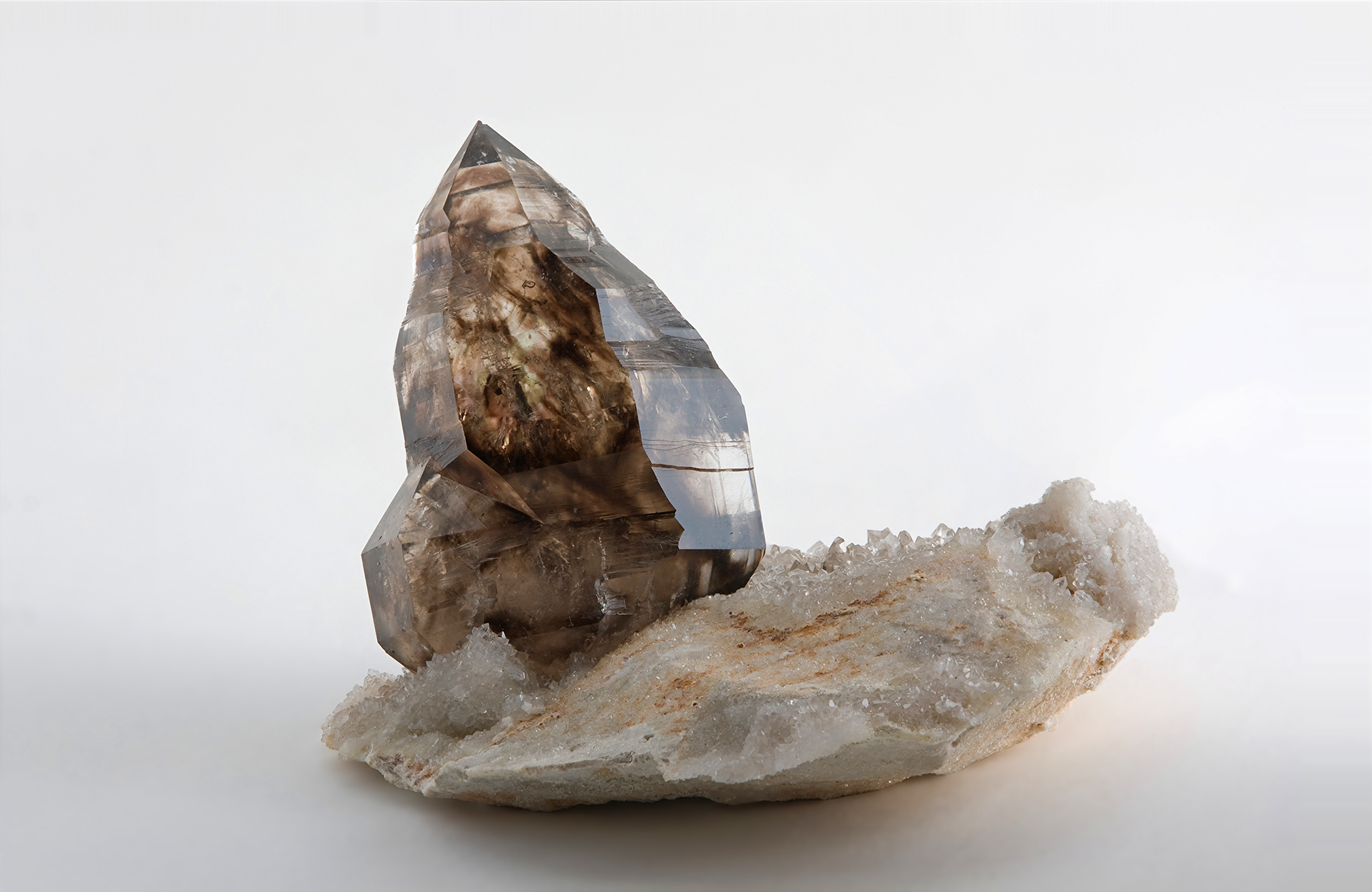 Quartz var. Smokey from Morella, Victoria